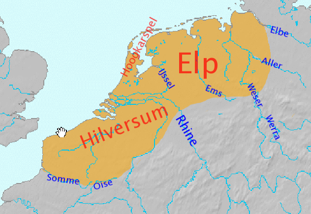 map of the late Bronze Age "Nordwestblock". See also Image:BronzAgeElp.png.